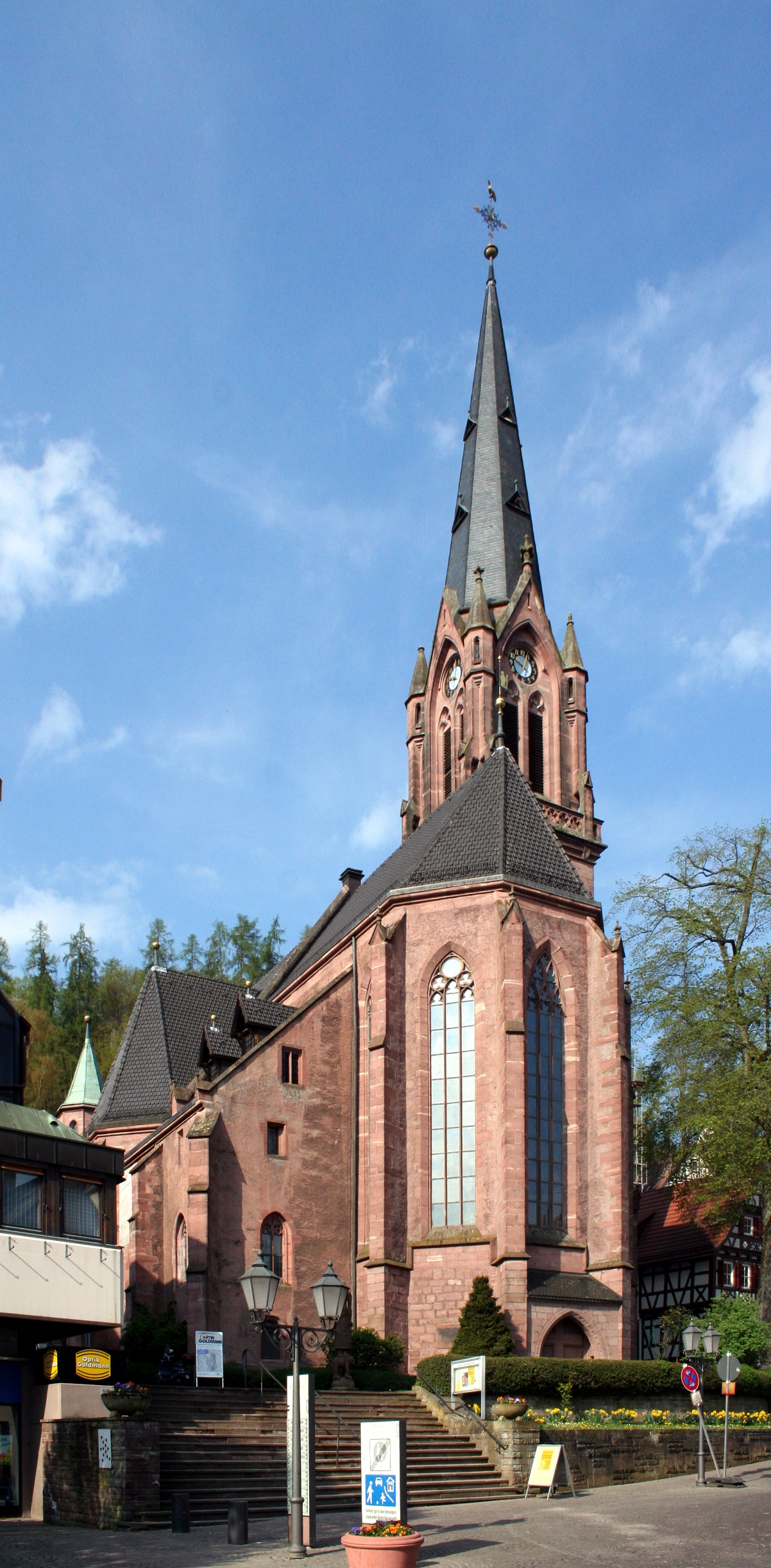 Protestant town church Saint Peter and Paul in Calw, administrative district Calw, Baden-Wurttemberg, Germany.